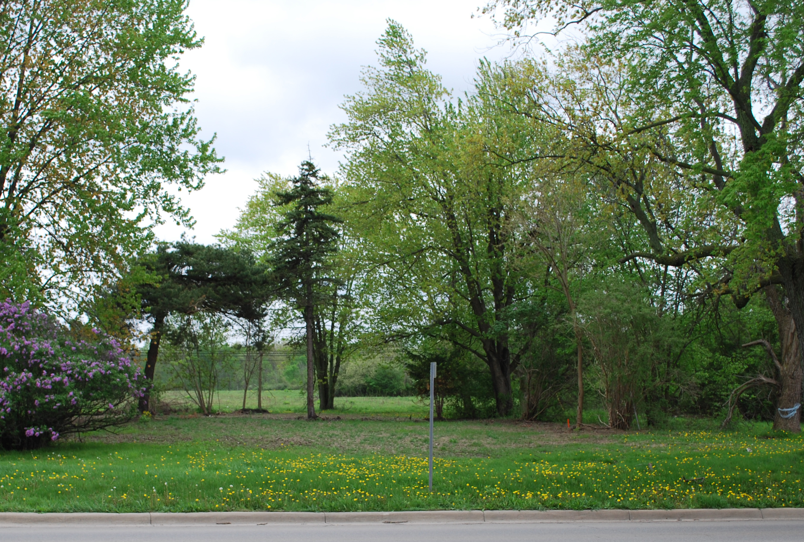 Site of David and Elizabeth Bell Boldman House, Canton, MI. DEMOLISHED